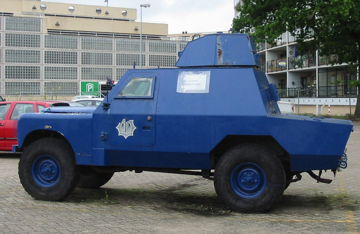 Former Dutch Police Shorland armoured car.